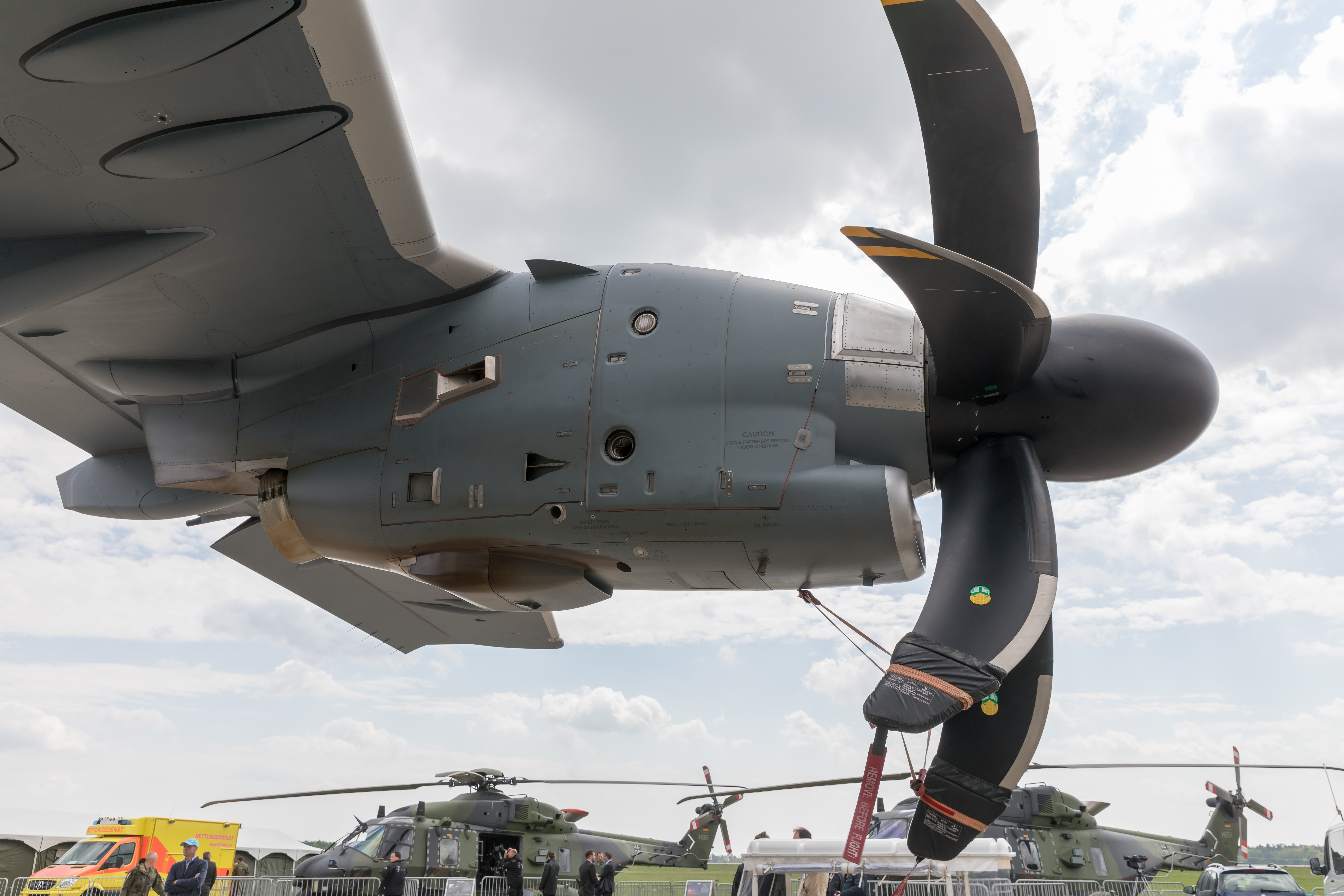 Europrop TP400 engine of an Airbus A400M, ILA 2018